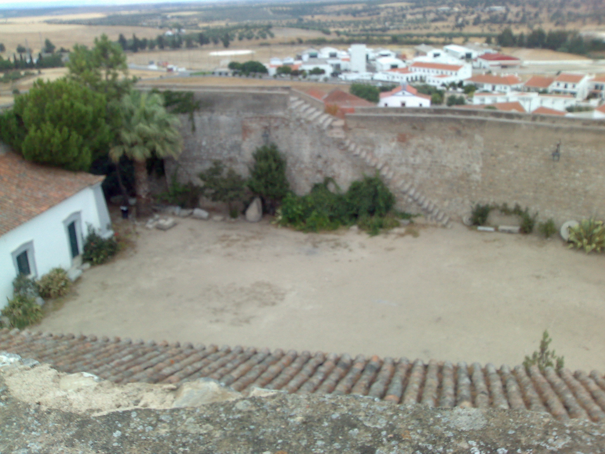 Serpa Castle interior view